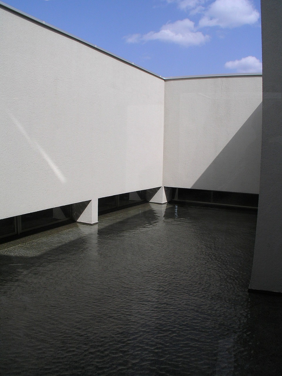 Doi-saien